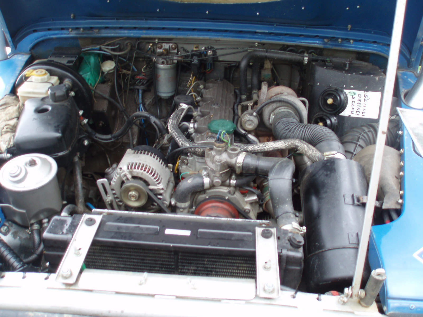 A Land Rover 200Tdi engine. This Defender-specification engine has been retrofitted into an earlier vehicle and so the ancillaries and other fitments are non-standard.